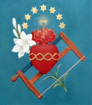 Emblem of Josefine Sisters of Charity (Hermanas Josefinas de la Caridad), from a devotional print.